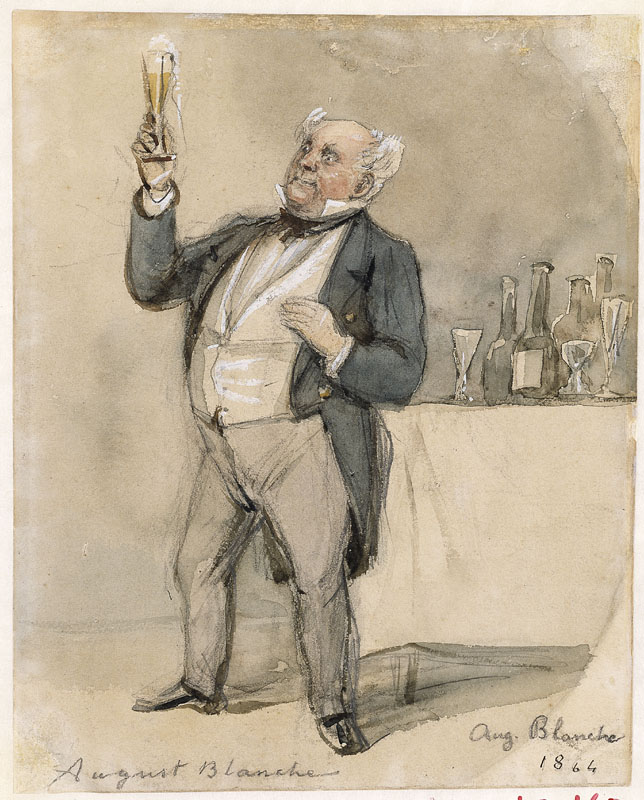 August Blanche. Watercolour.